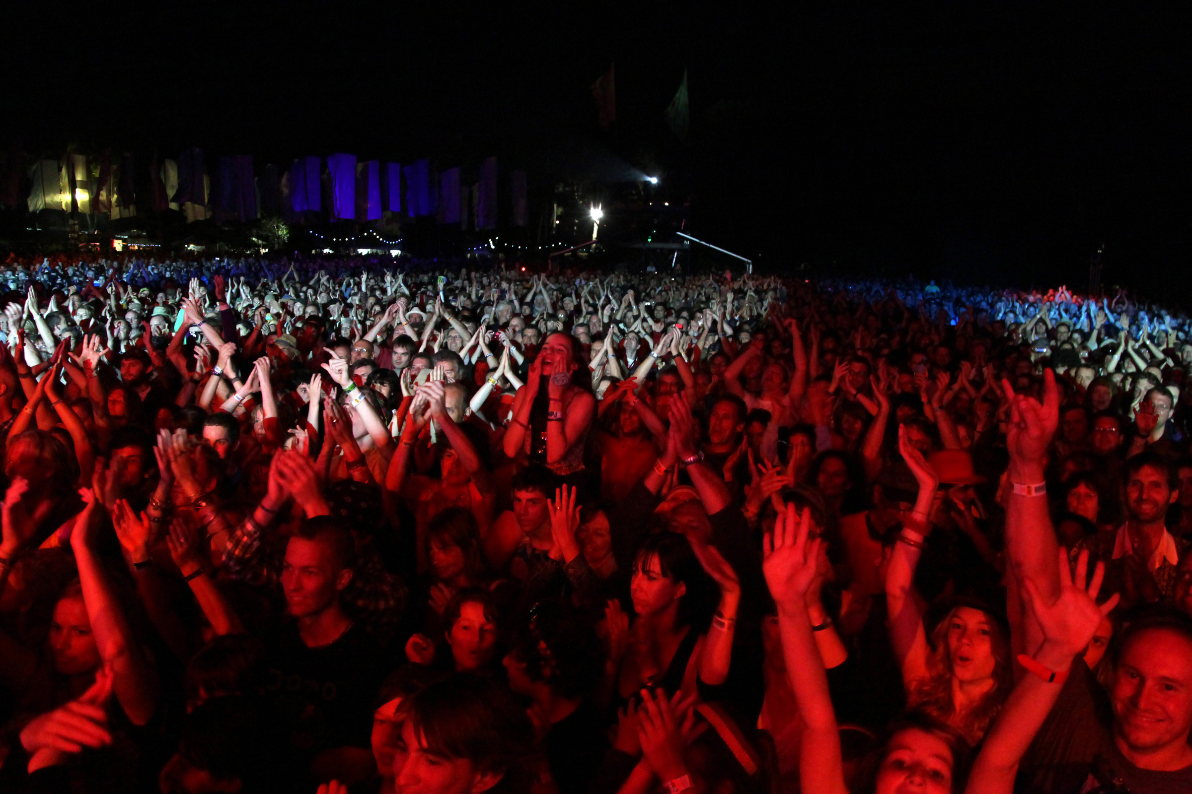 Crowd at Womadelaide 2012